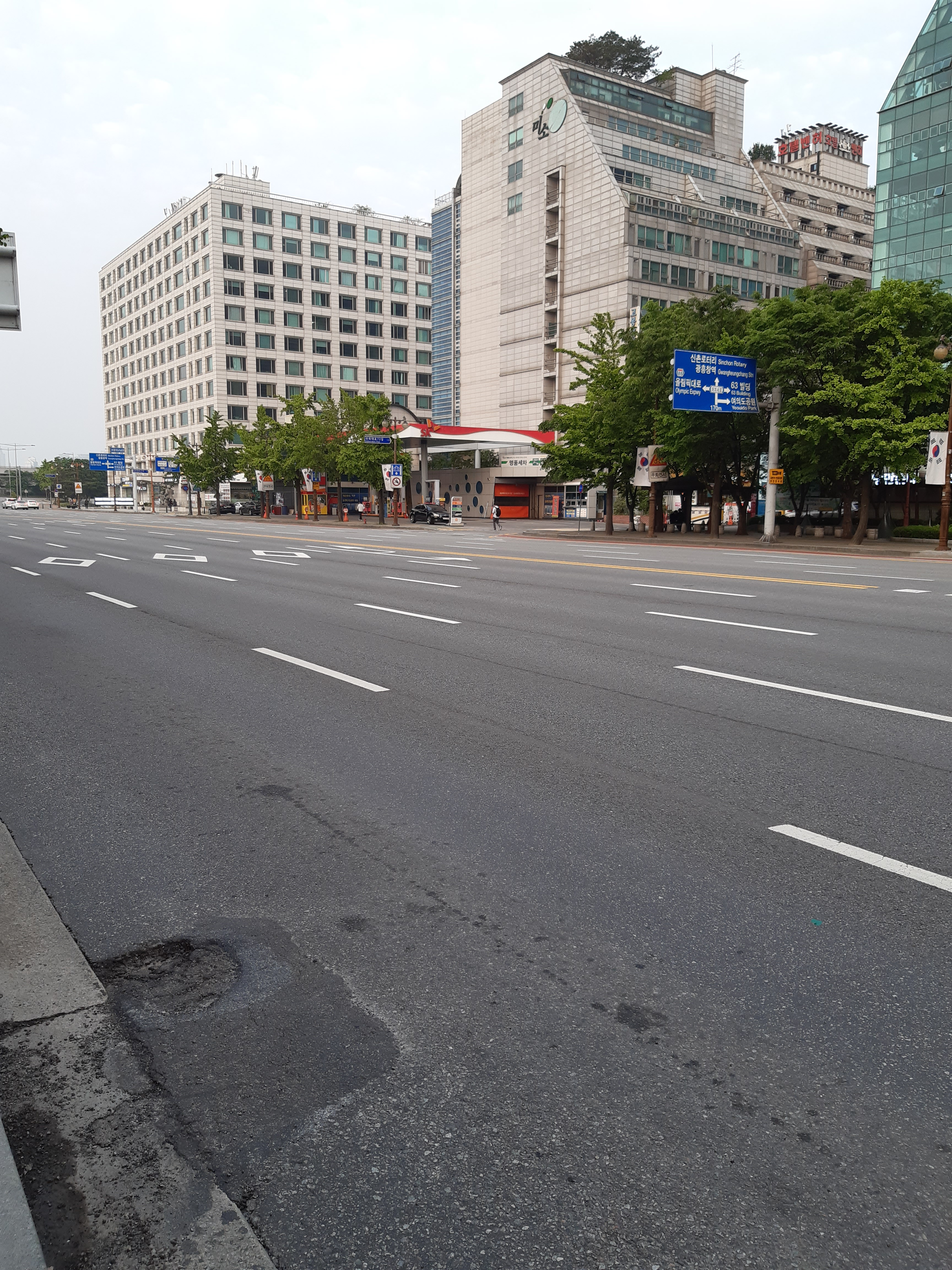 seoul National Assembly road